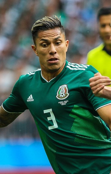 Carlos Salcedo